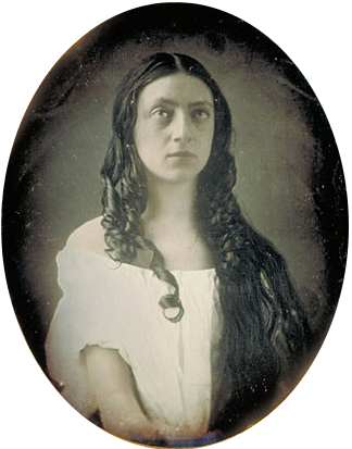 Quarter-plate daguerreotype of Louisa Lane Drew